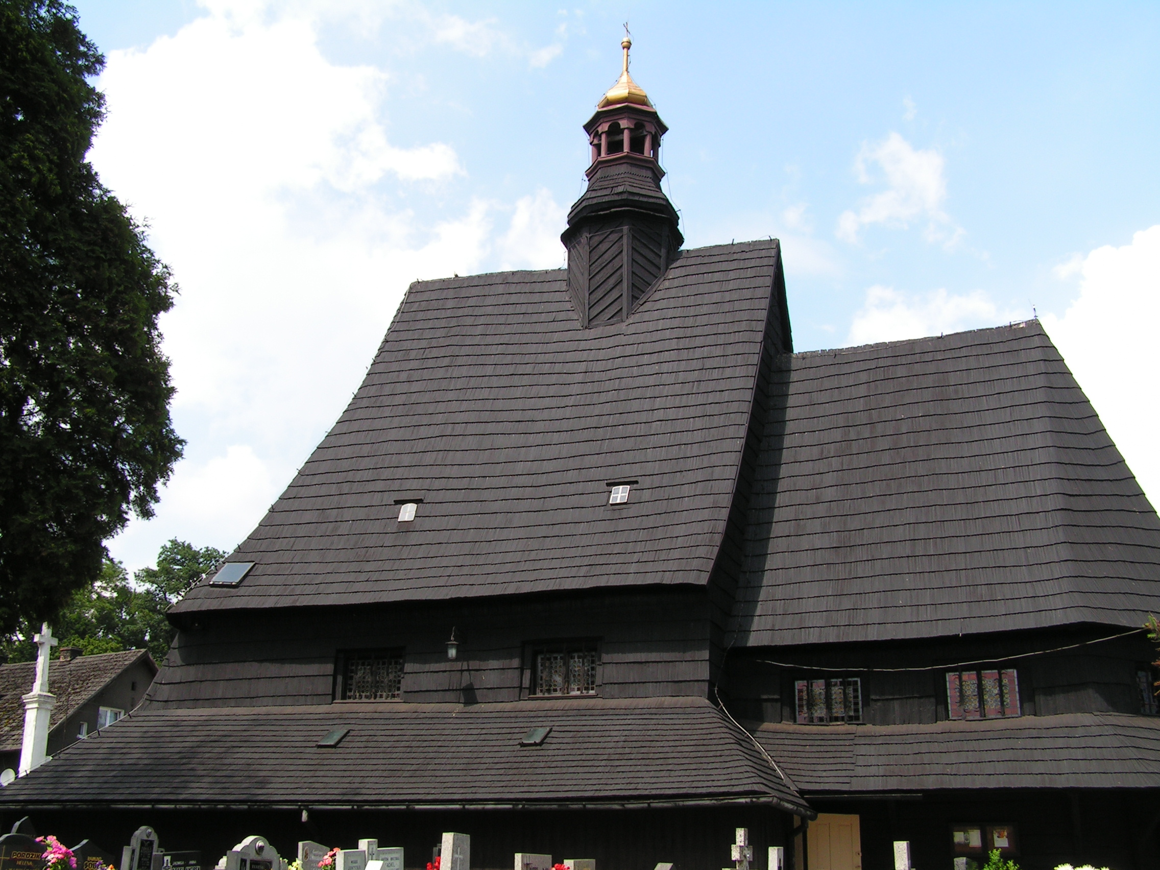 Church of Saint John the Baptist in Poniszowice